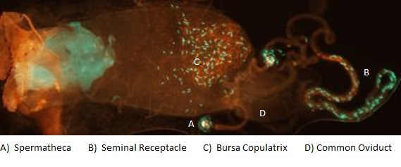 Drosophila melanogaster reproductive tract of female who mated with GFP-male and then remated with RFP-male.